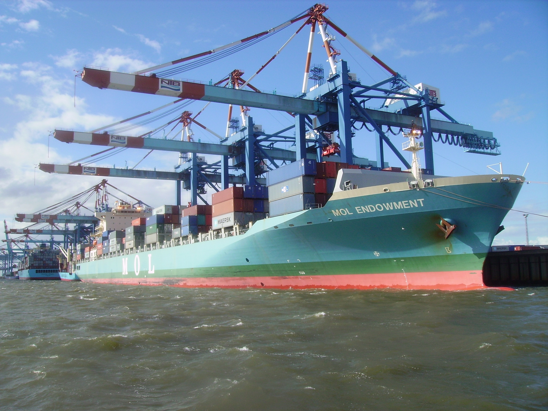 The container ship MOL Endowment of the Japanese company MOL in the port of Bremerhaven, Germany